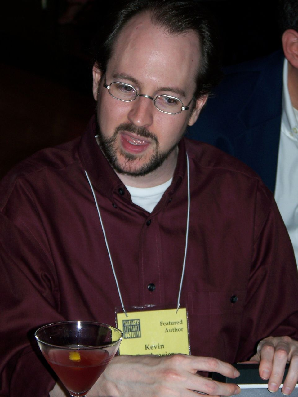 Kevin Brockmeier. Pictures from the Arkansas Literacy Festival's Martini Reception with the Authors. The event was part of the 2007 Festival and held at the Junior League of Little Rock Headquarters on April 20, 2007.